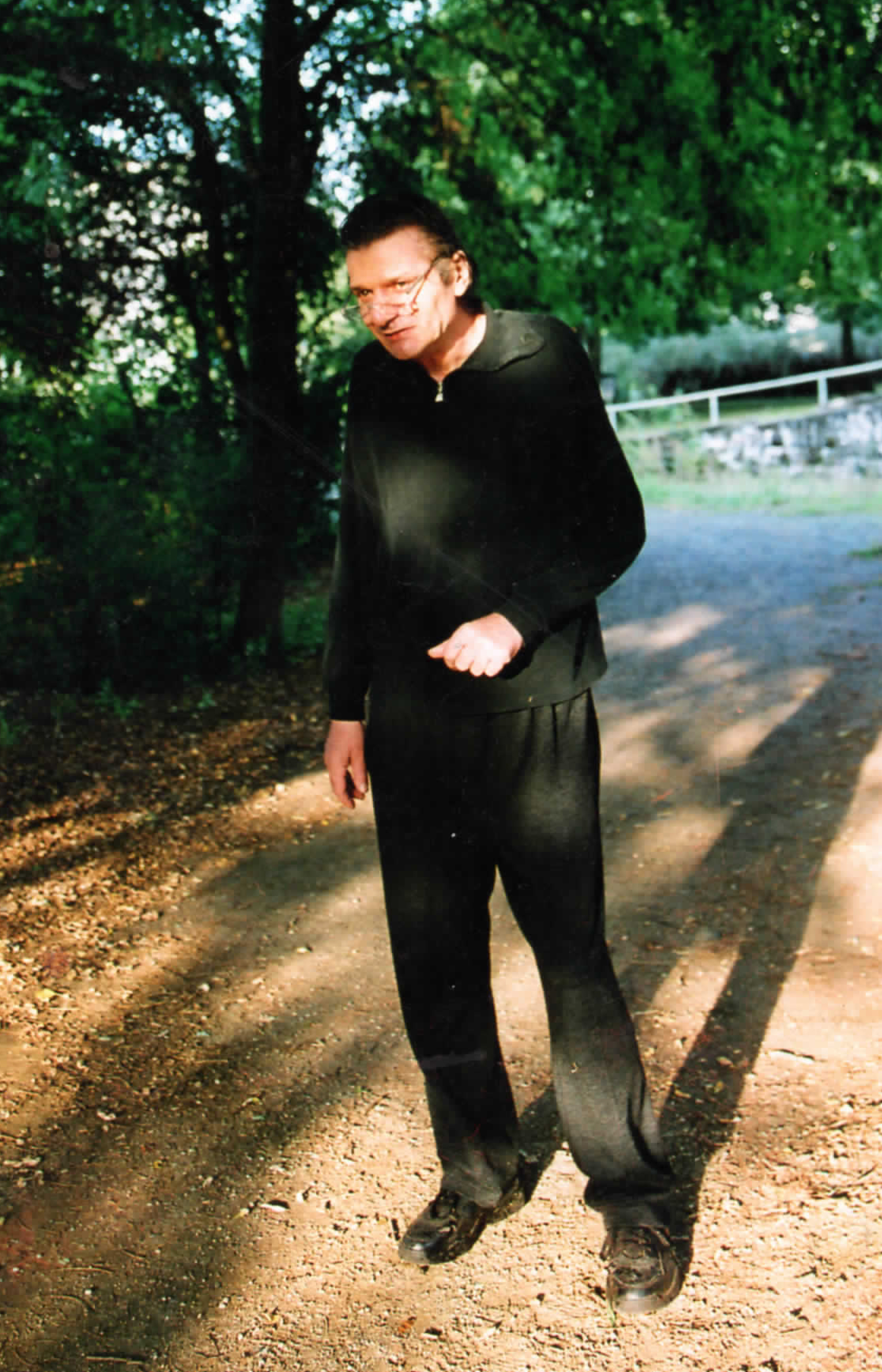 Dave Monty